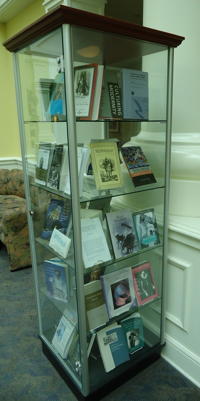 Showcase of books written by TCNJ professors. Campus view of The College of New Jersey or TCNJ, in Ewing, New Jersey.